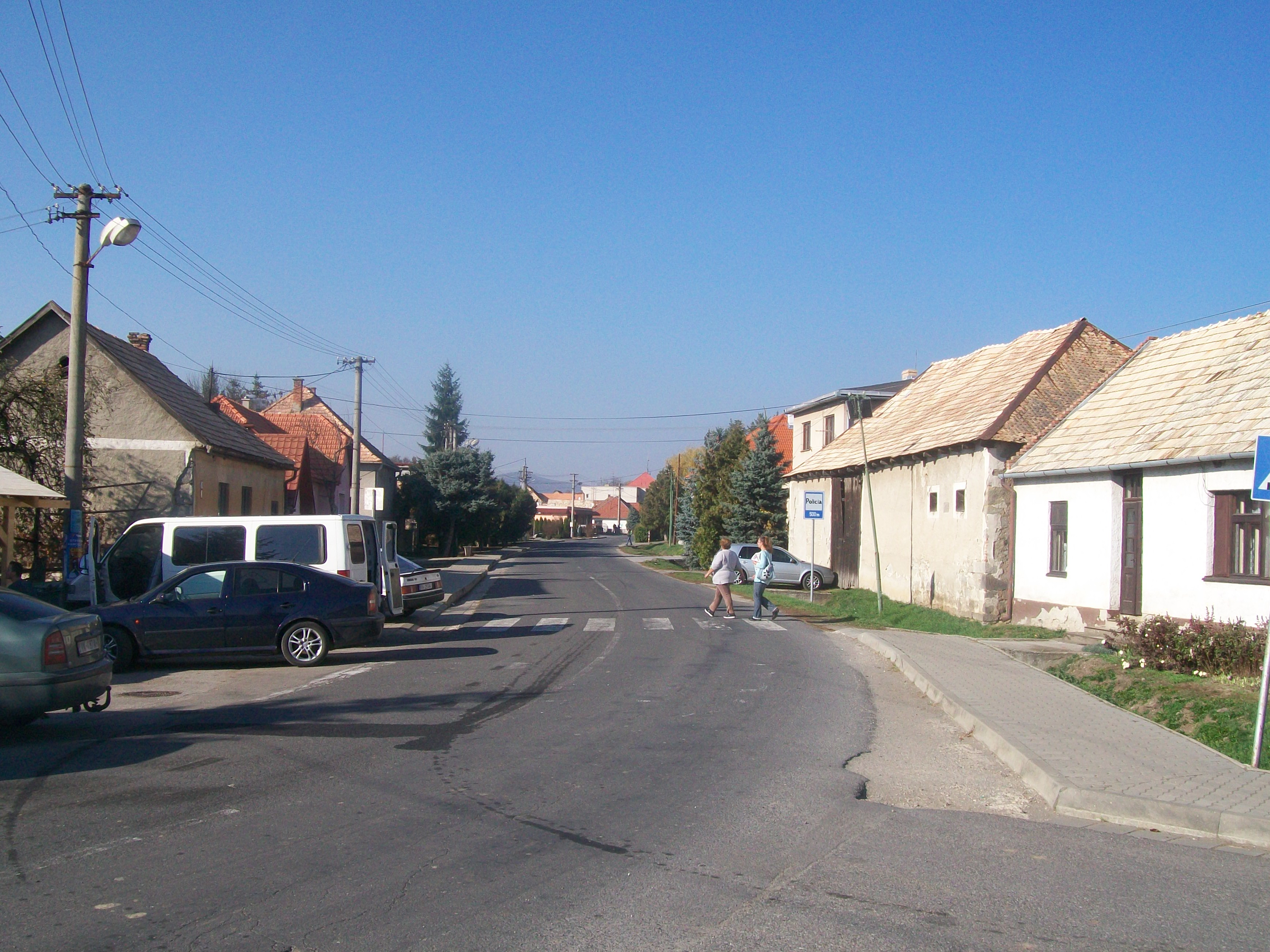 Main Street in village Dolná StrehováSlovenčina: Hlavná ulica obce Dolná Strehová